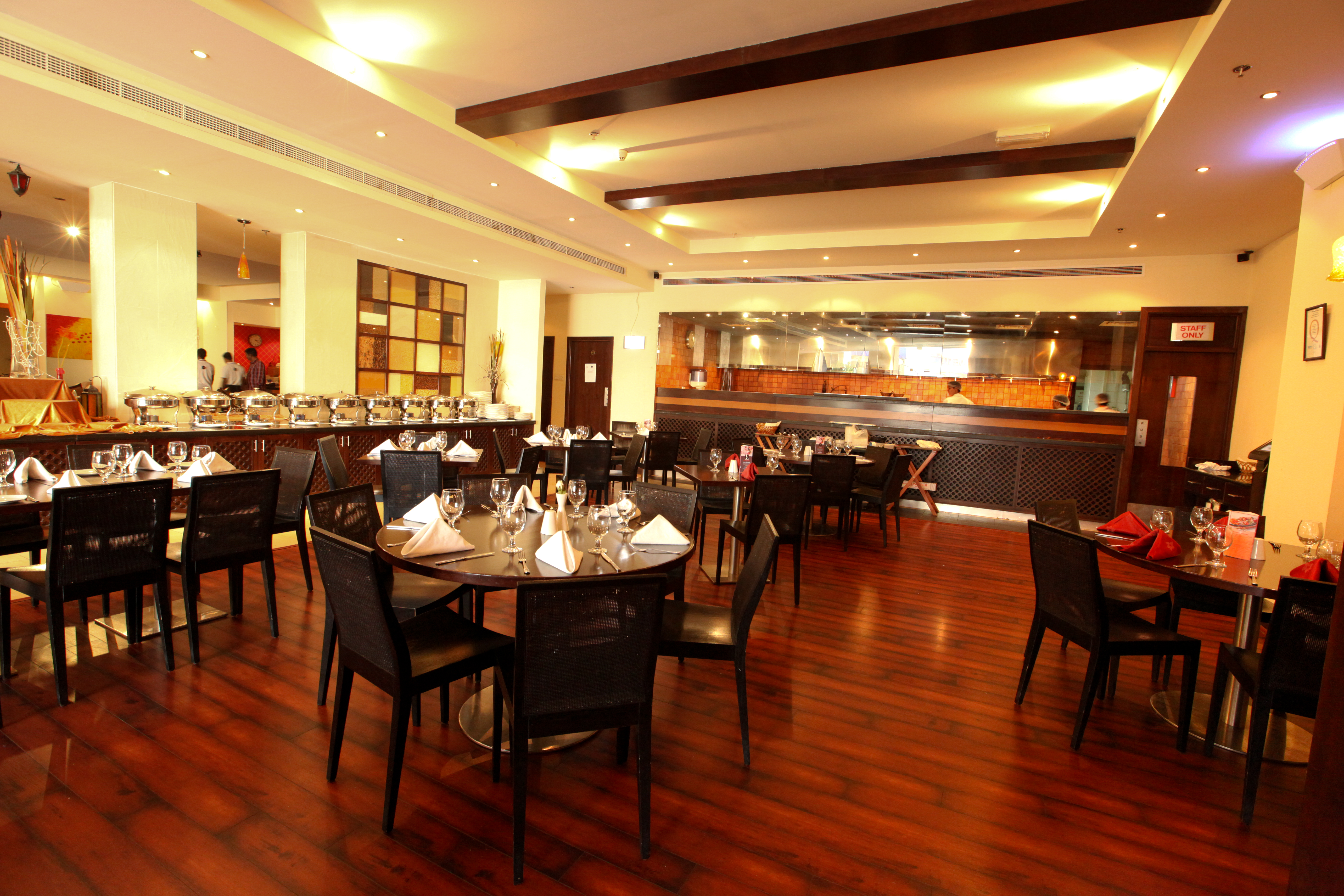 Mirchi in Uptown Mirdiff